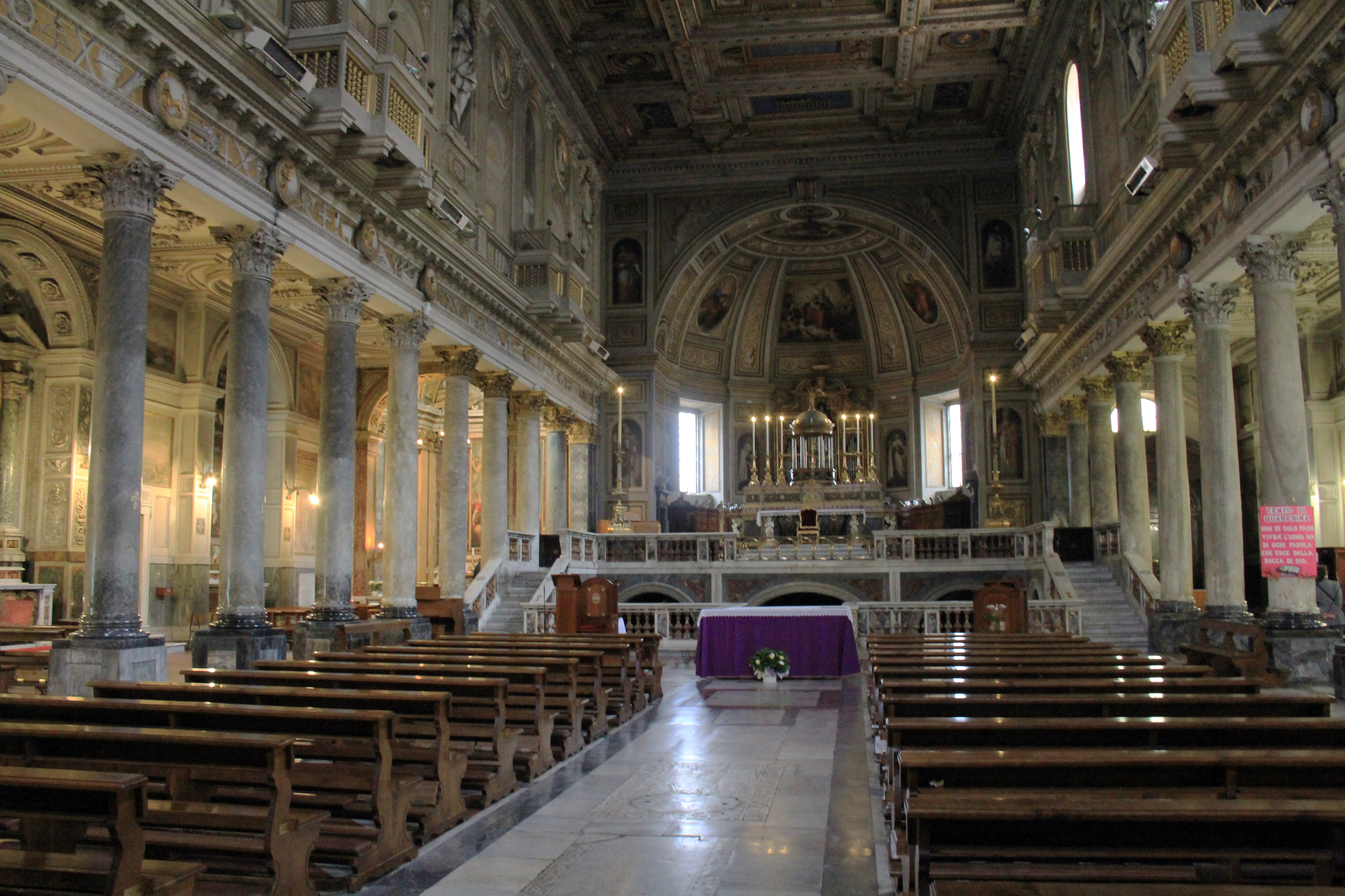 Interior of Church San Martino ai Monti, Rome, Italy